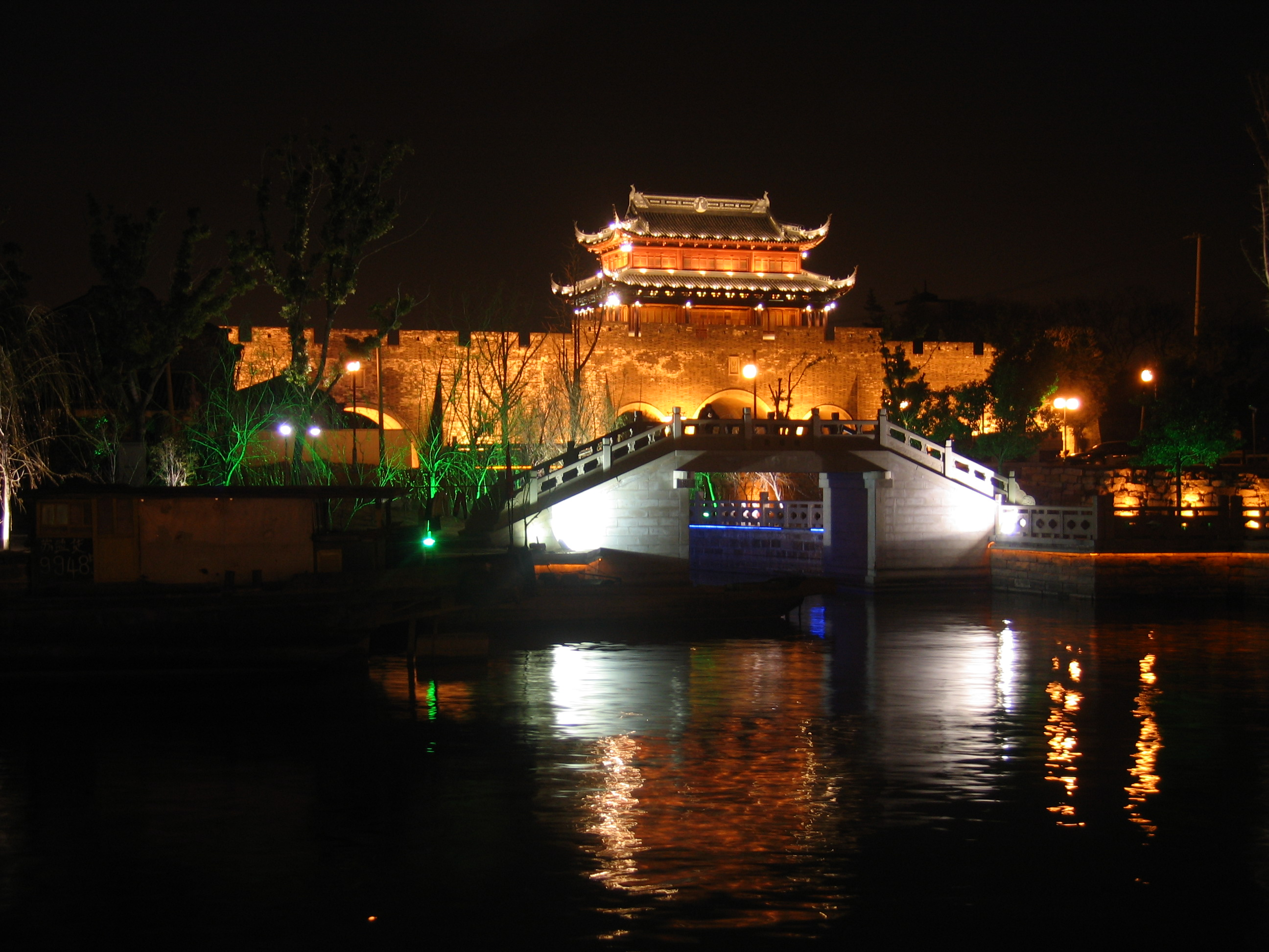 Chang Men gate at the north-west of the Suzhou Old Town at night.